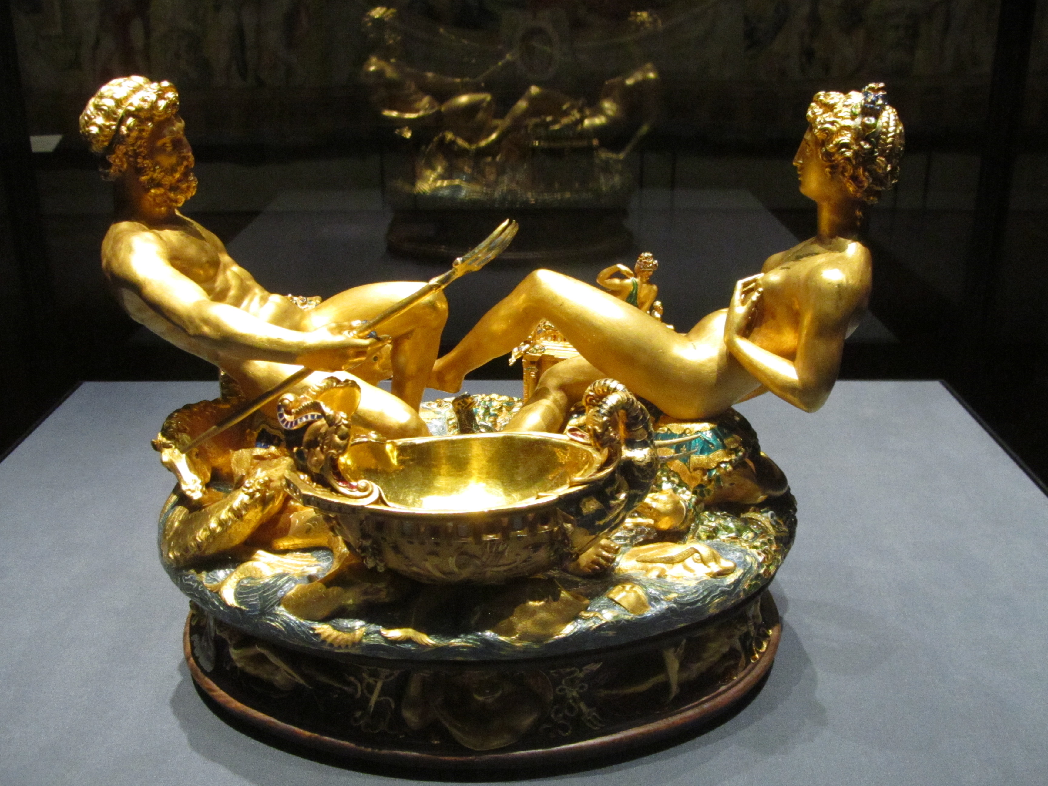 Saliera von Benvenuto Cellini (Paris, 1540–1543) Foto from the back with little ship for the salt